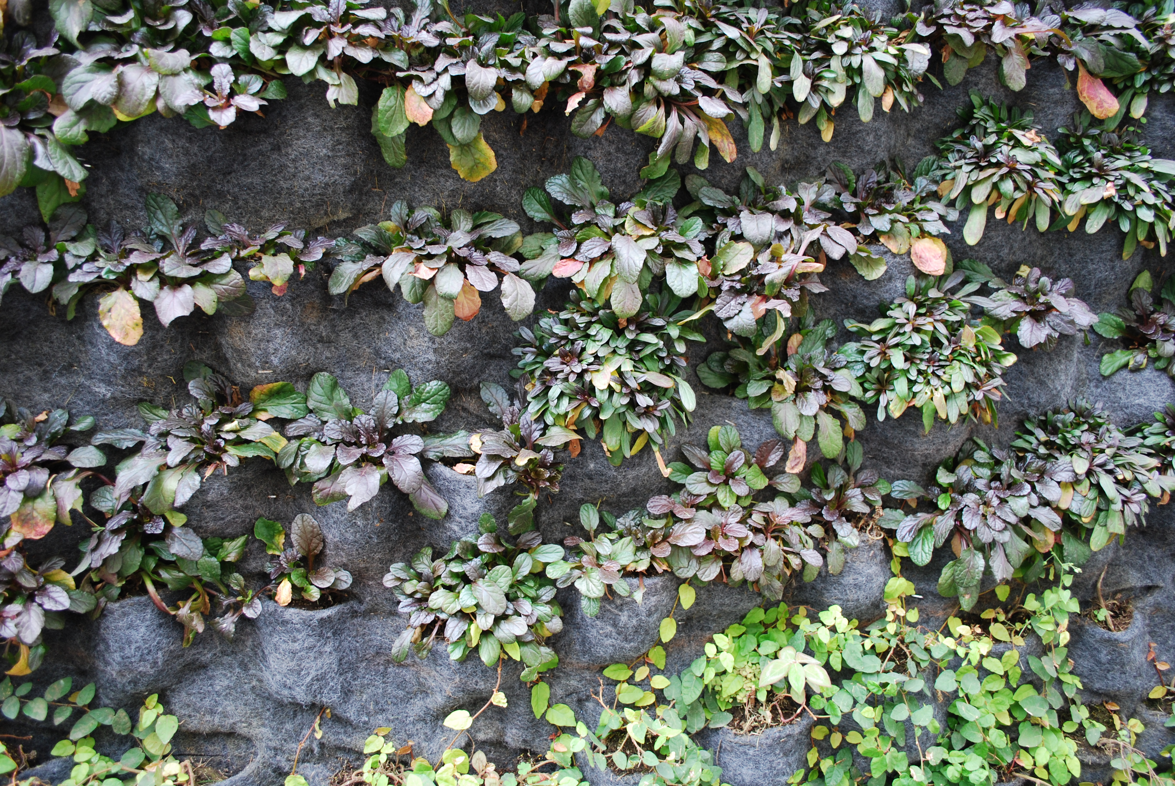 Green wall at the Universidad del Claustro de Sor Juana in the historic center of Mexico City